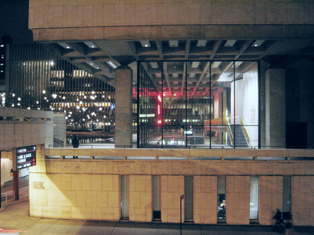 Vivian Beaumont Theater, Lincoln Center Manhattan, New York City